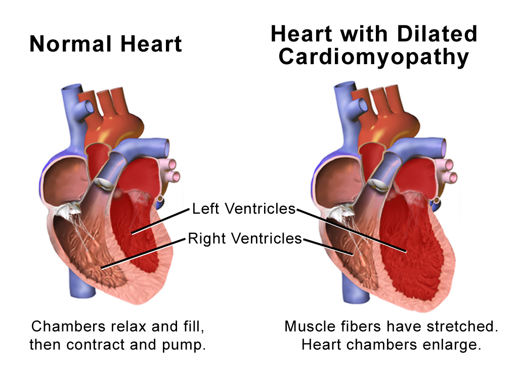 Dilated Cardiomyopathy. This image was donated by Blausen Medical. Please visit our website to see more medical illustrations and animations.